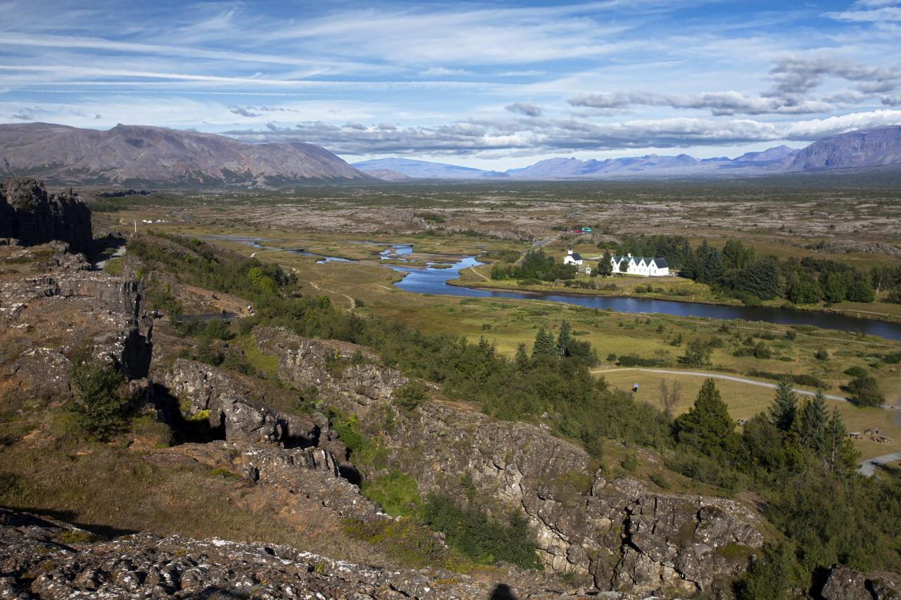 Iceland